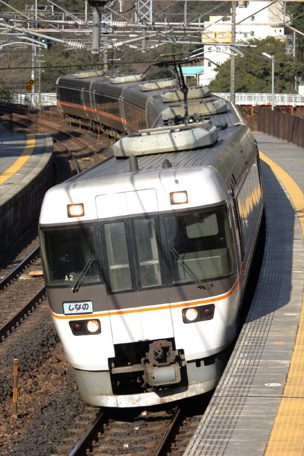 JR_Central_383_series (Limited express Shinano), at Kokokei Station.